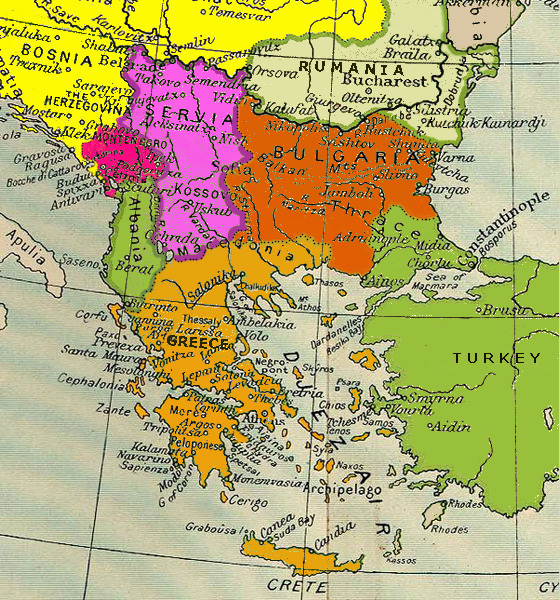 Balkan peninsula between 1913 & 1918